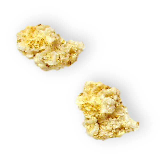 These mineral images are free to use how you wish.